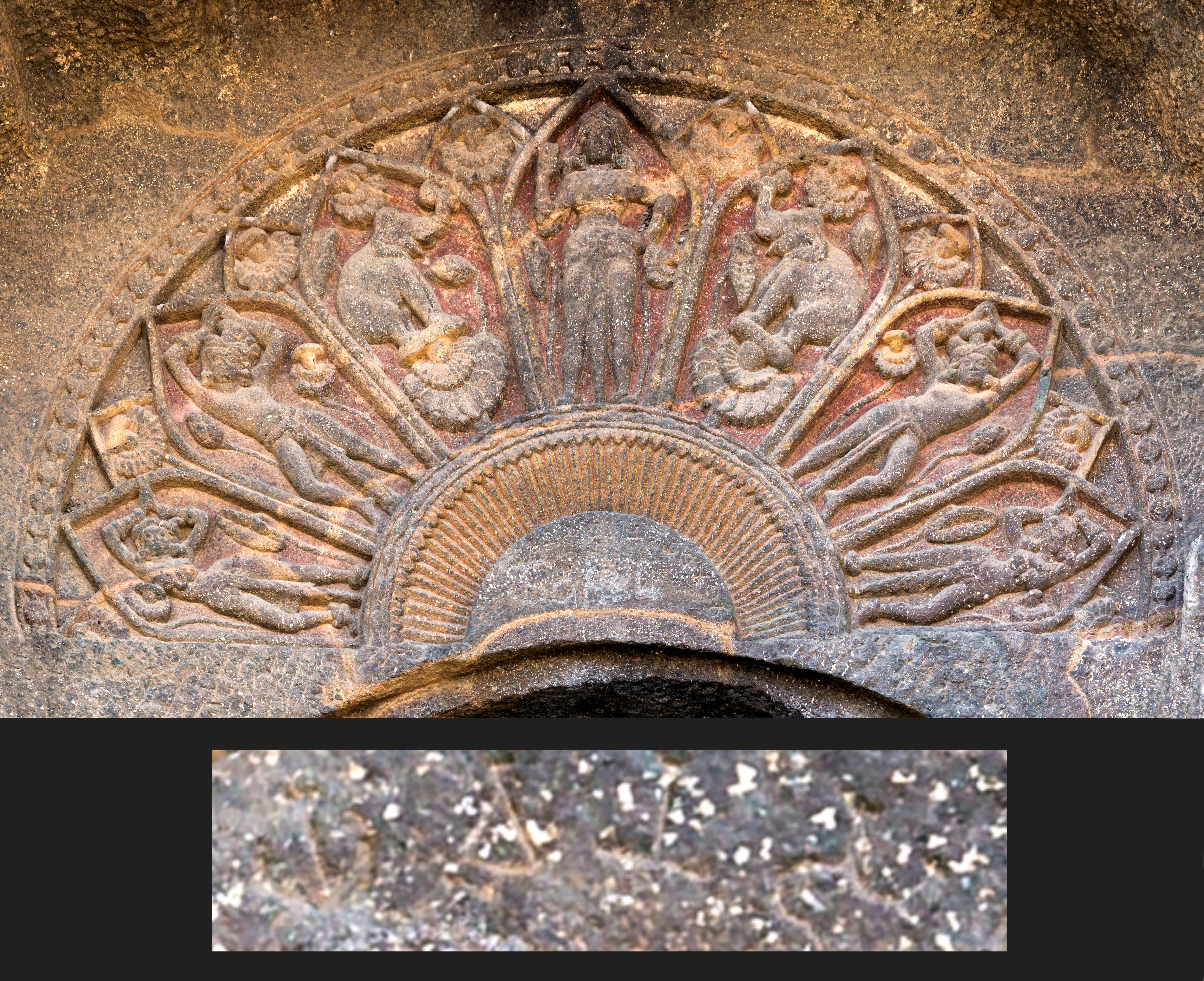 Full stamping of the inscriptionManmodi Chaitya Yavanasa inscription